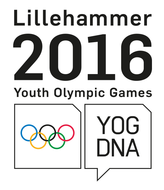 This is the official vertical emblem of Lillehammer 2016 Youth Olympic Games